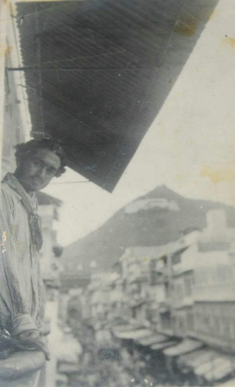 Syed Ghulam Moinuddin Gilani, Baray Lalajee Golra Sharif, in India